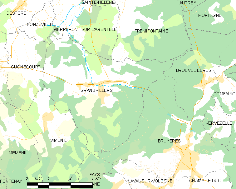 Map of French municipality Grandvillers